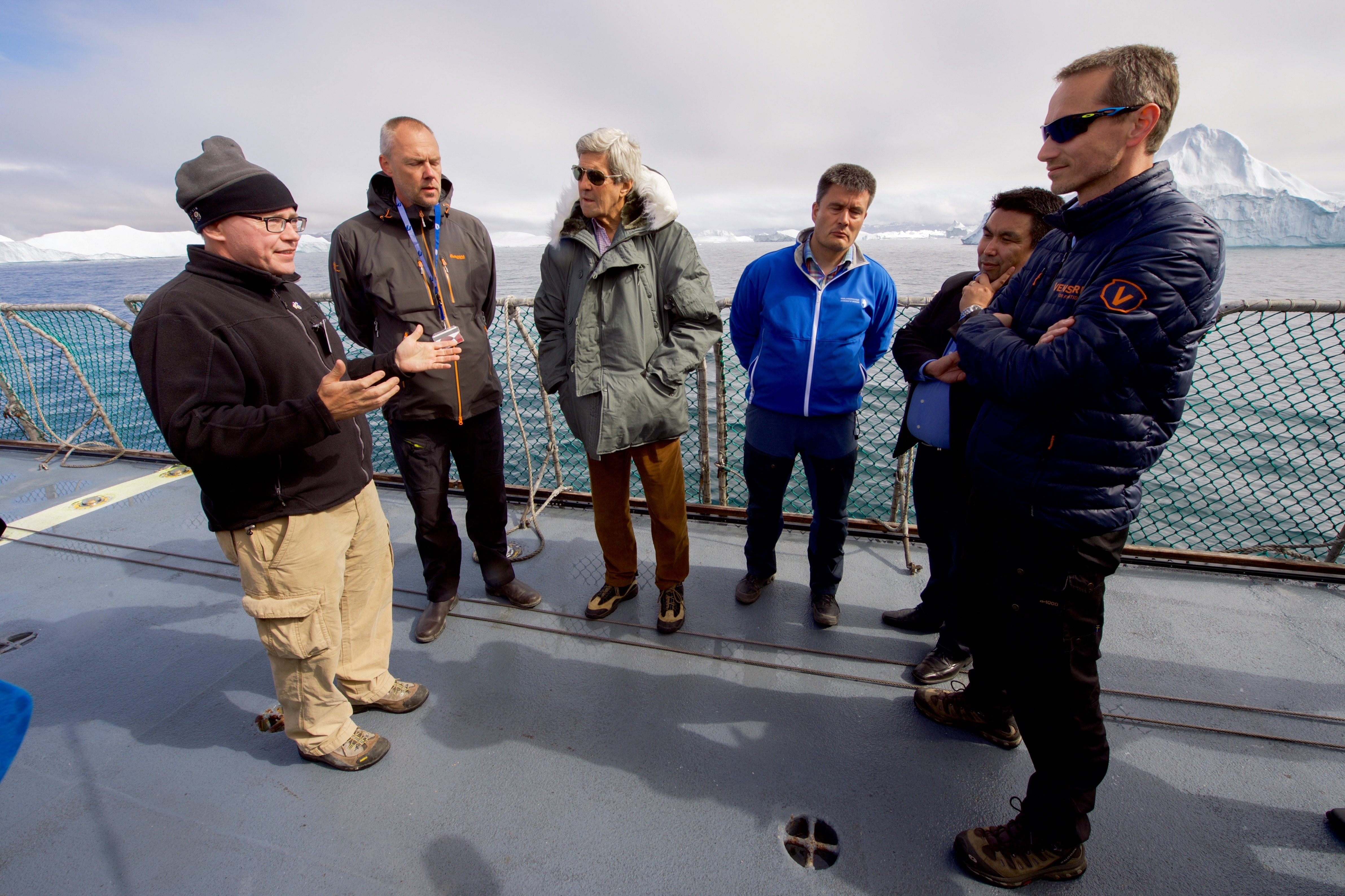 U.S. Secretary of State John Kerry receives a briefing fro a group of climate change scientists on June 17, 2016, as they cruise aboard the HDMS Thetis in the waters off Ilulissat, Greenland, so he and Danish Foreign Minister Kristian Jensen could view an iceberg field created by the Jacobshavn Glacier Front, receive the science briefing, and meet with Greenlandic Premier Kim Kielsen and Foreign Minister Vittus Qujaukitsoq. [State Department photo/ Public Domain]